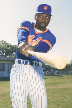 Professional baseball player Mookie Wilson